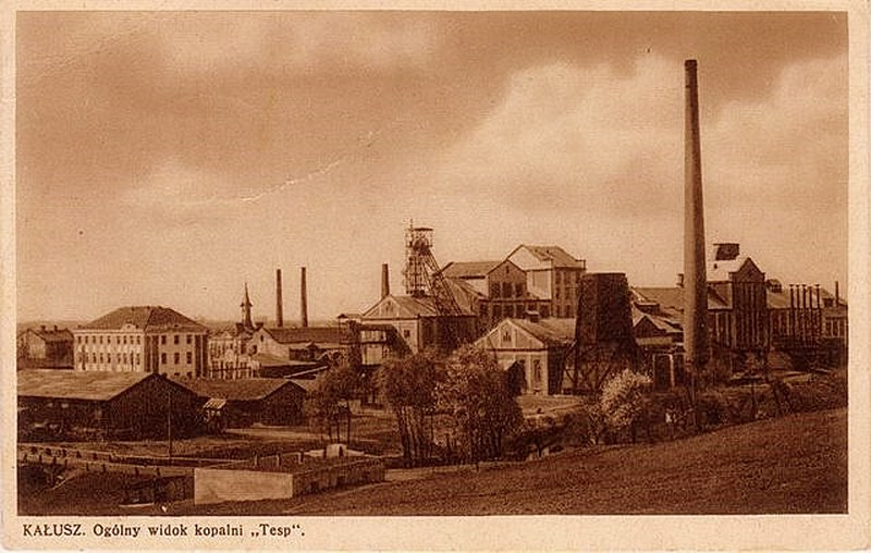 A potash mine in Kalush, Poland, ca. 1930, a postcard. Nowadays, Kalush is in Ukraine.